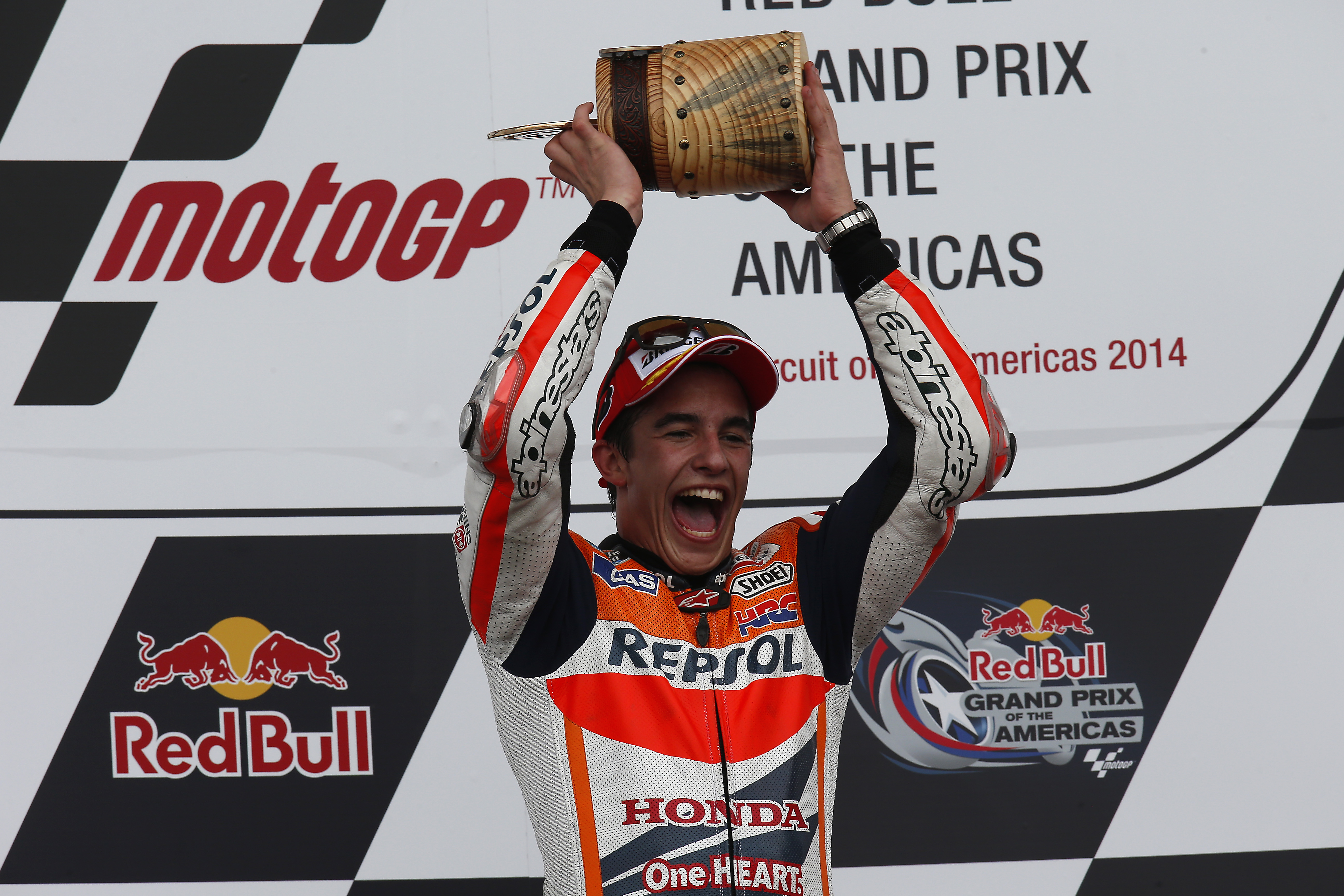 Marc Márquez, celebrating on the podium after winning the 2014 Grand Prix of the Americas.